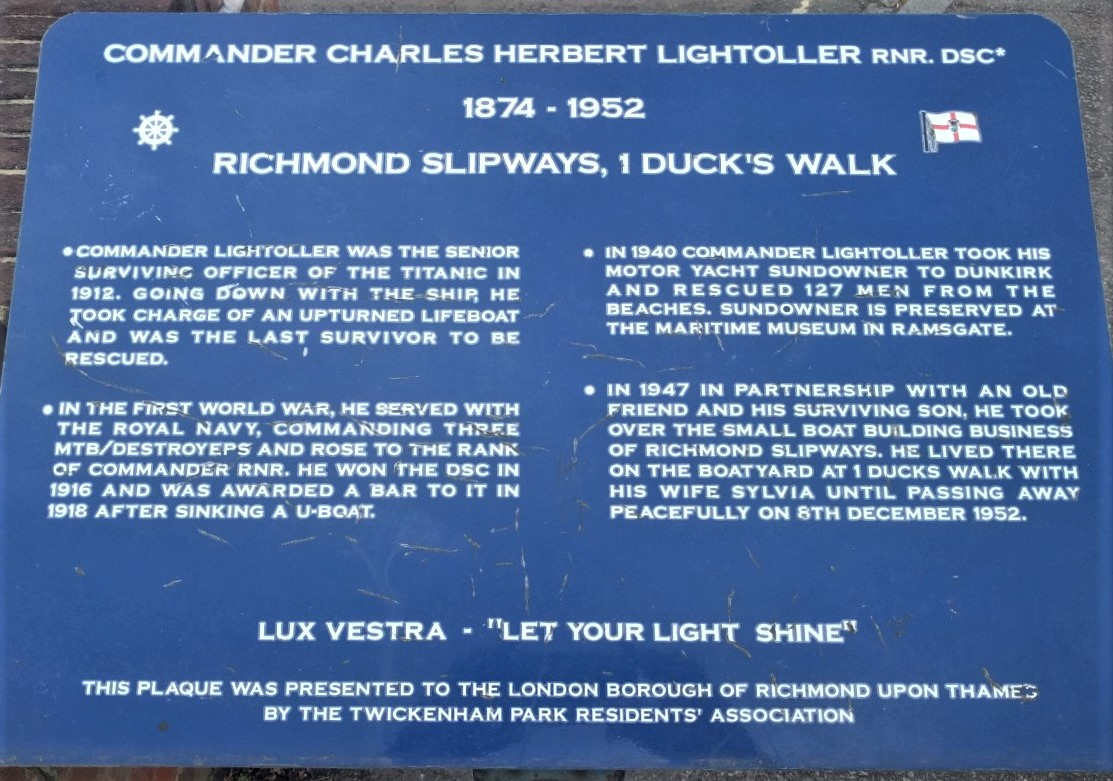 Charles Lightoller was a Titanic survivor and Royal Naval officer. The memorial is in Riverdale Gardens Twickenham, near Richmond Lock, West London